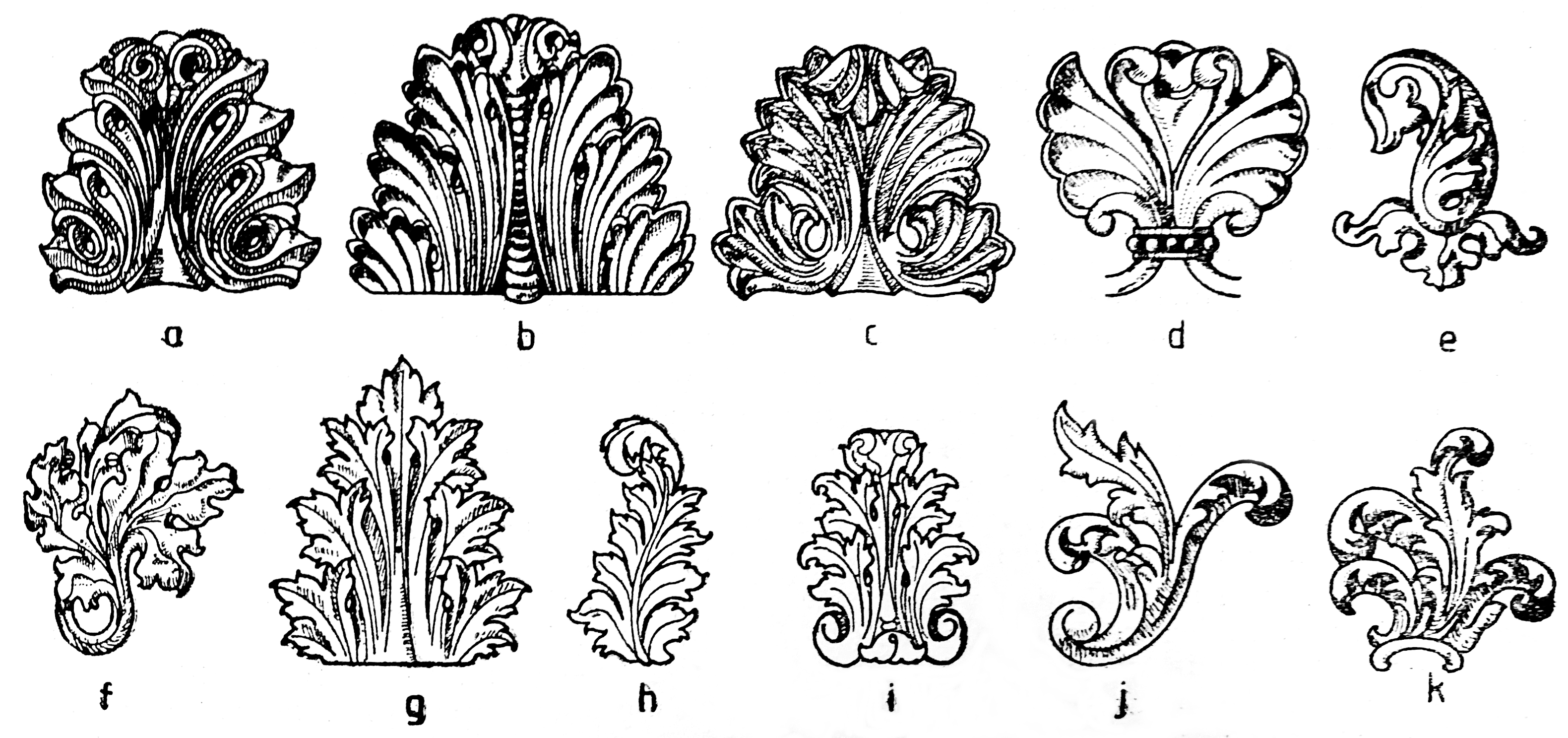 Timeline of acanthus leafes in different styles, each one beaing notated with a letter. a-Greek, b-Roman, c-Byzantine, d-Romanesque, e, f-Gothic, g-Renaissance, h, i-Baroque, j, k-Rococo.